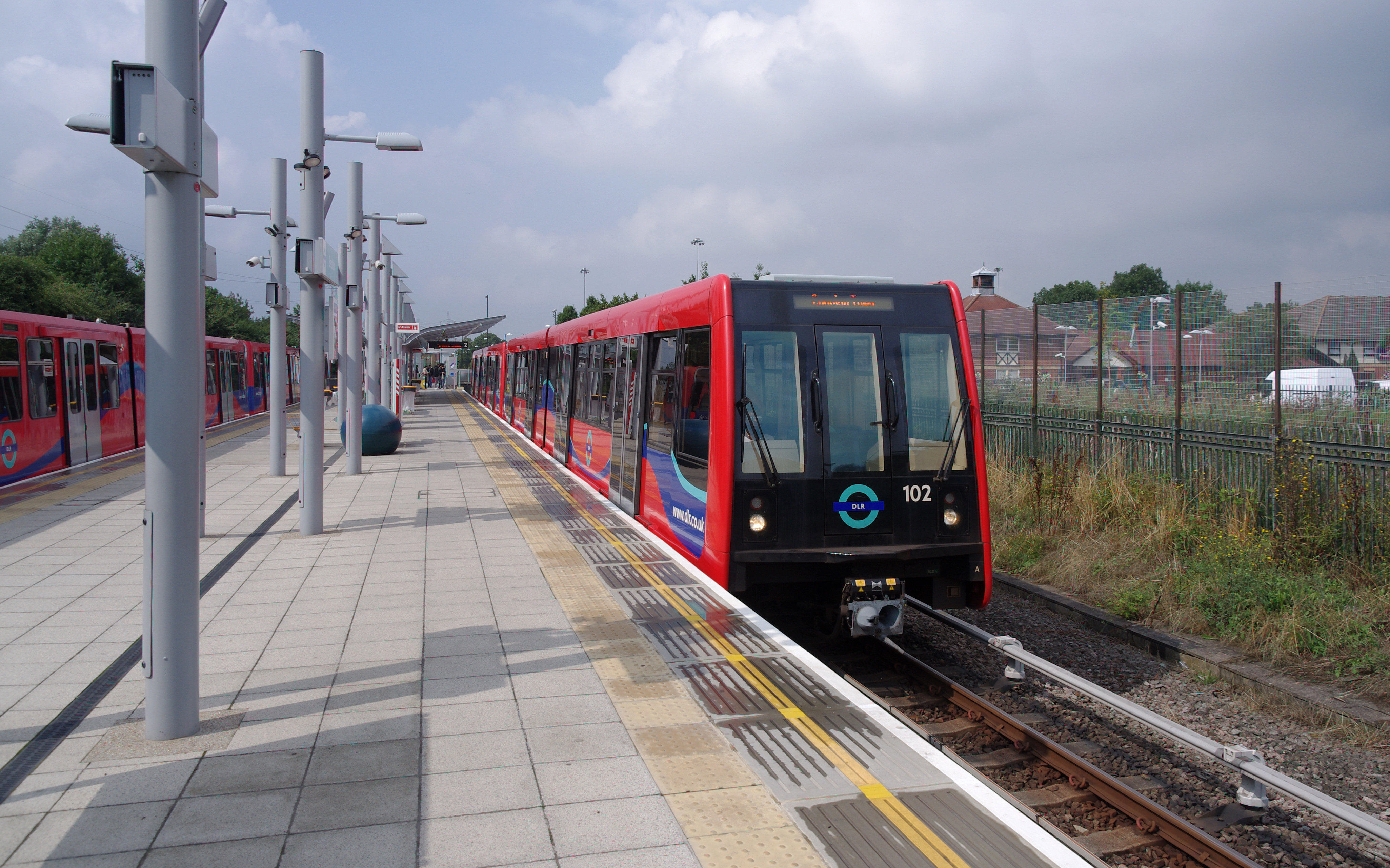 A B07 train headed by 121 stands at Beckton DLR station.